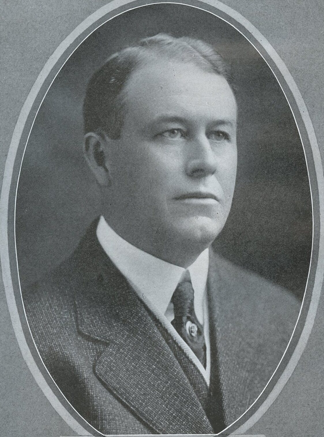 Lieutenant Governor of Missouri, 1917-21 From the Missouri Official Manual 1917